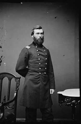 (Library of Congress photograph cropped from a three-image photo) Thos. H. Ruger. CREATED/PUBLISHED [between 1860 and 1870] NOTES Title from unverified information on negative sleeve. Annotation from negative, scratched on emulsion: 1673. Forms part of Civil War glass negative collection (Library of Congress). SUBJECTS United States--History--Civil War, 1861-1865. Portrait photographs--1860-1870. Glass negatives--1860-1870. MEDIUM 1 negative : glass, wet collodion. CALL NUMBER LC-B814- 1673 REPRODUCTION NUMBER LC-DIG-cwpb-04479 DLC (digital file from original neg.) SPECIAL TERMS OF USE No known restrictions on publication.